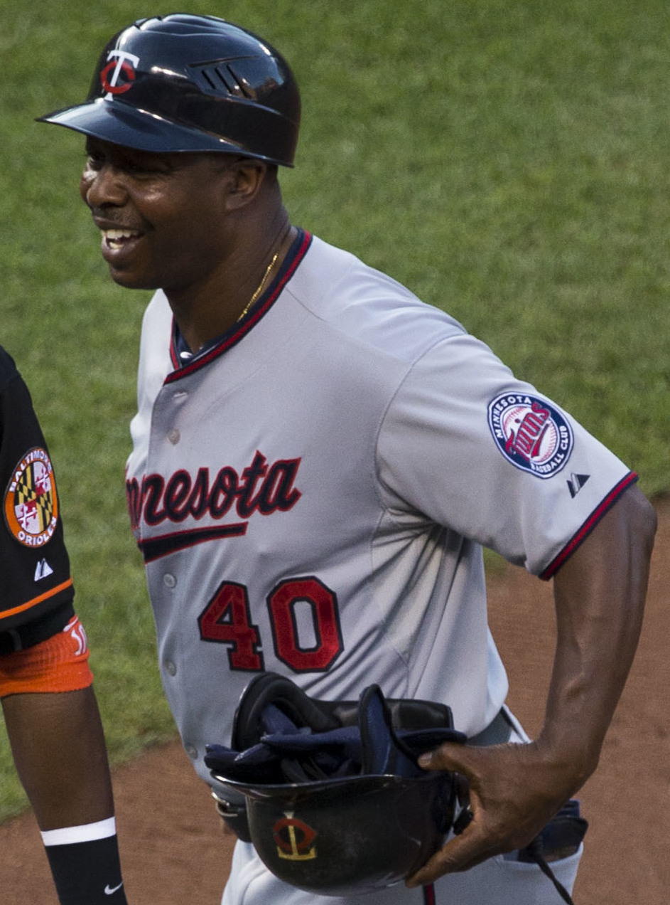 Adam Jones (left) of the Baltimore Orioles and Butch Davis of the Minnesota Twins during a 2015 game at Camden Yards in Baltimore